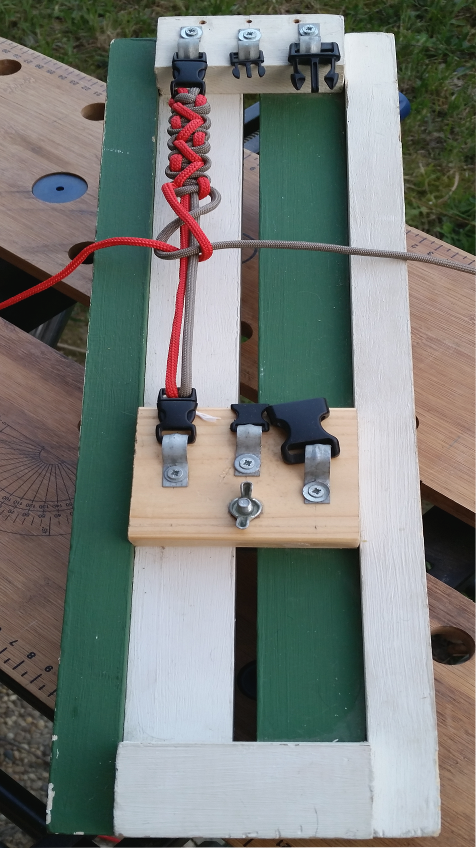 Survival bracelet with buckles jig (Crooked river bar bracelet in progress)